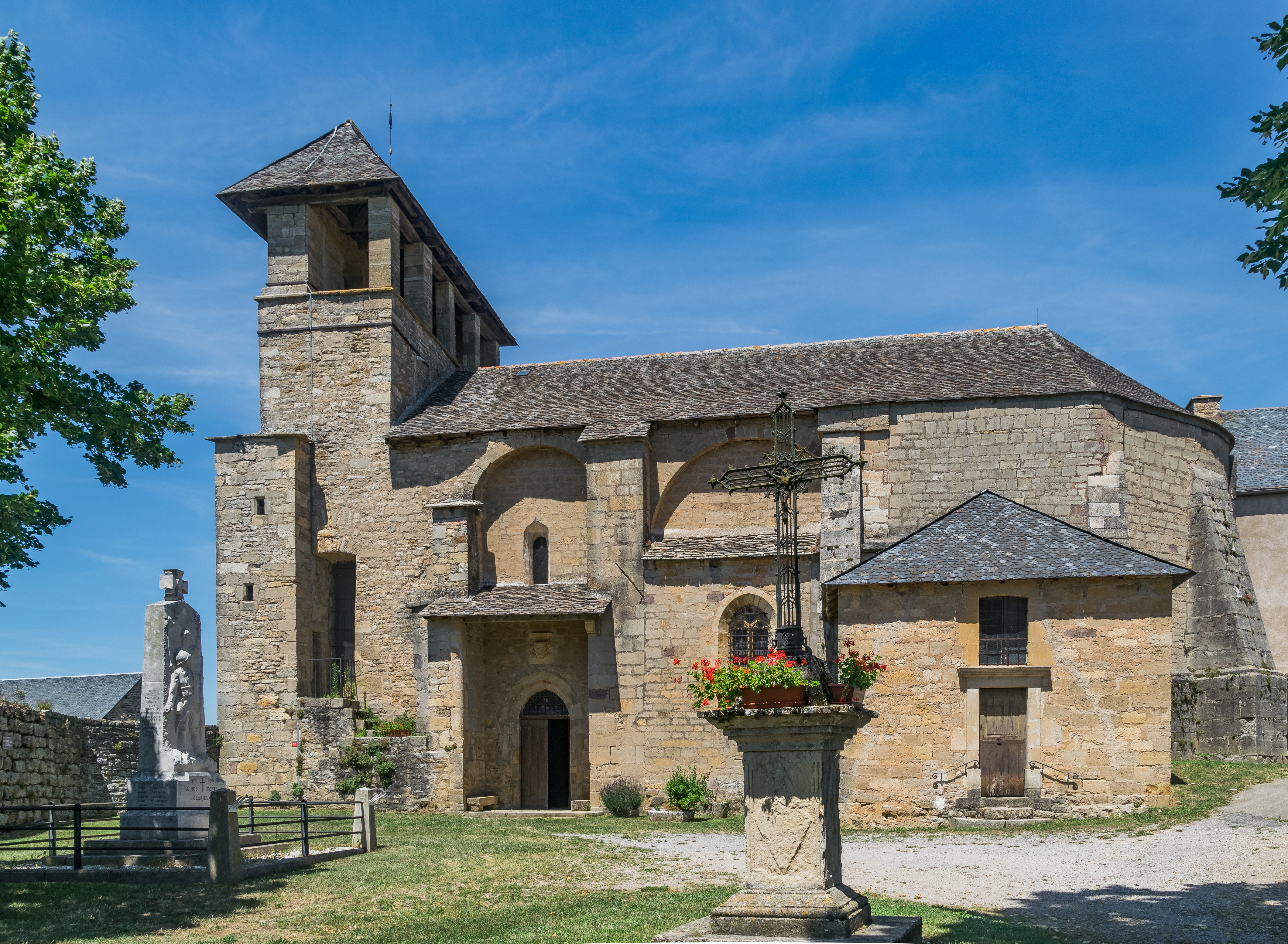 Saint Vincent Church of Palmas, Aveyron, France .